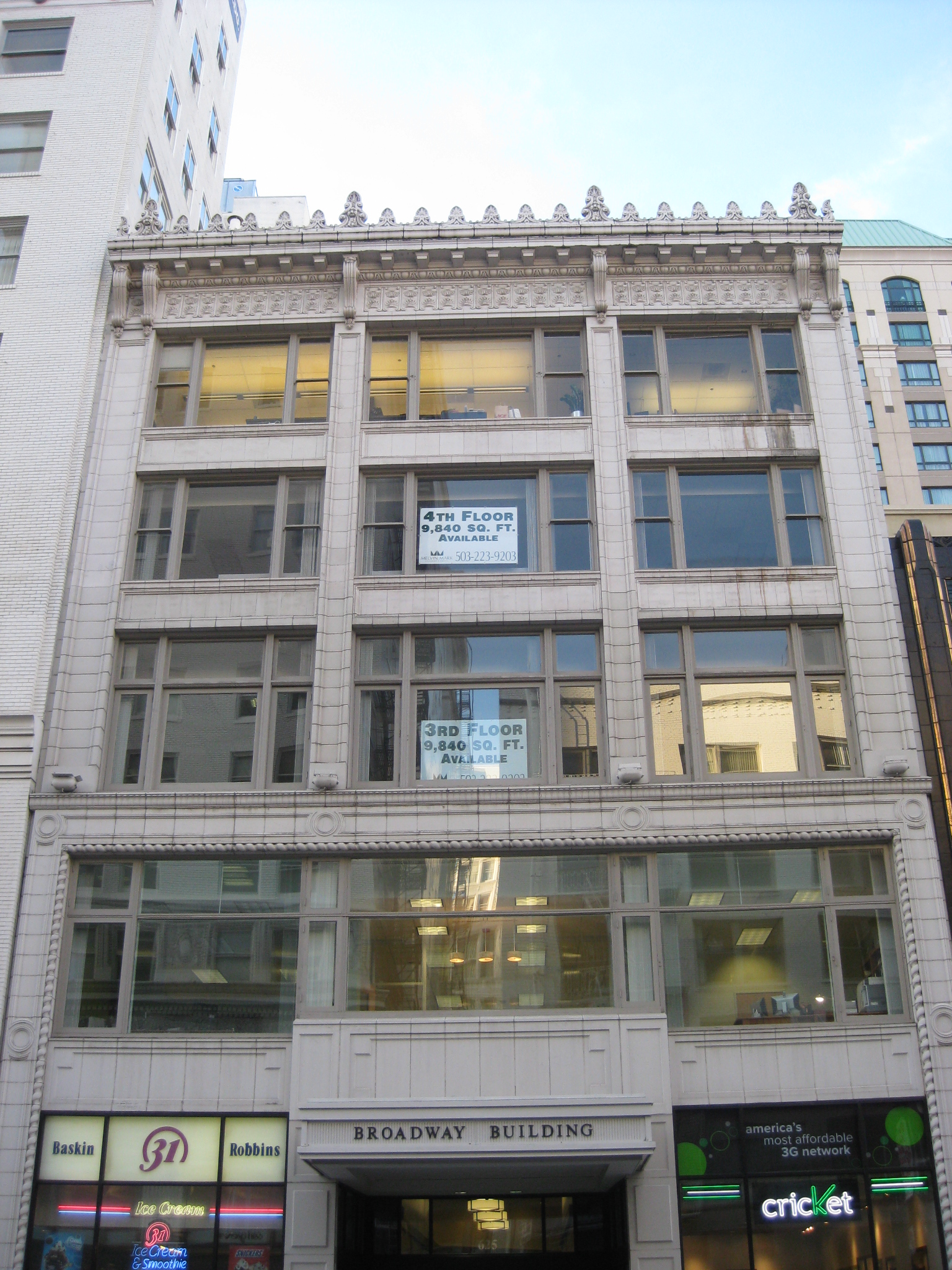 The historic H. Liebes and Company Building (built 1917), located at 625 SW Broadway in Portland, Oregon, United States, is listed on the US National Register of Historic Places. Not to be confused with the building next door at 715 SW Morrison Street, which is also known as the Broadway Building.